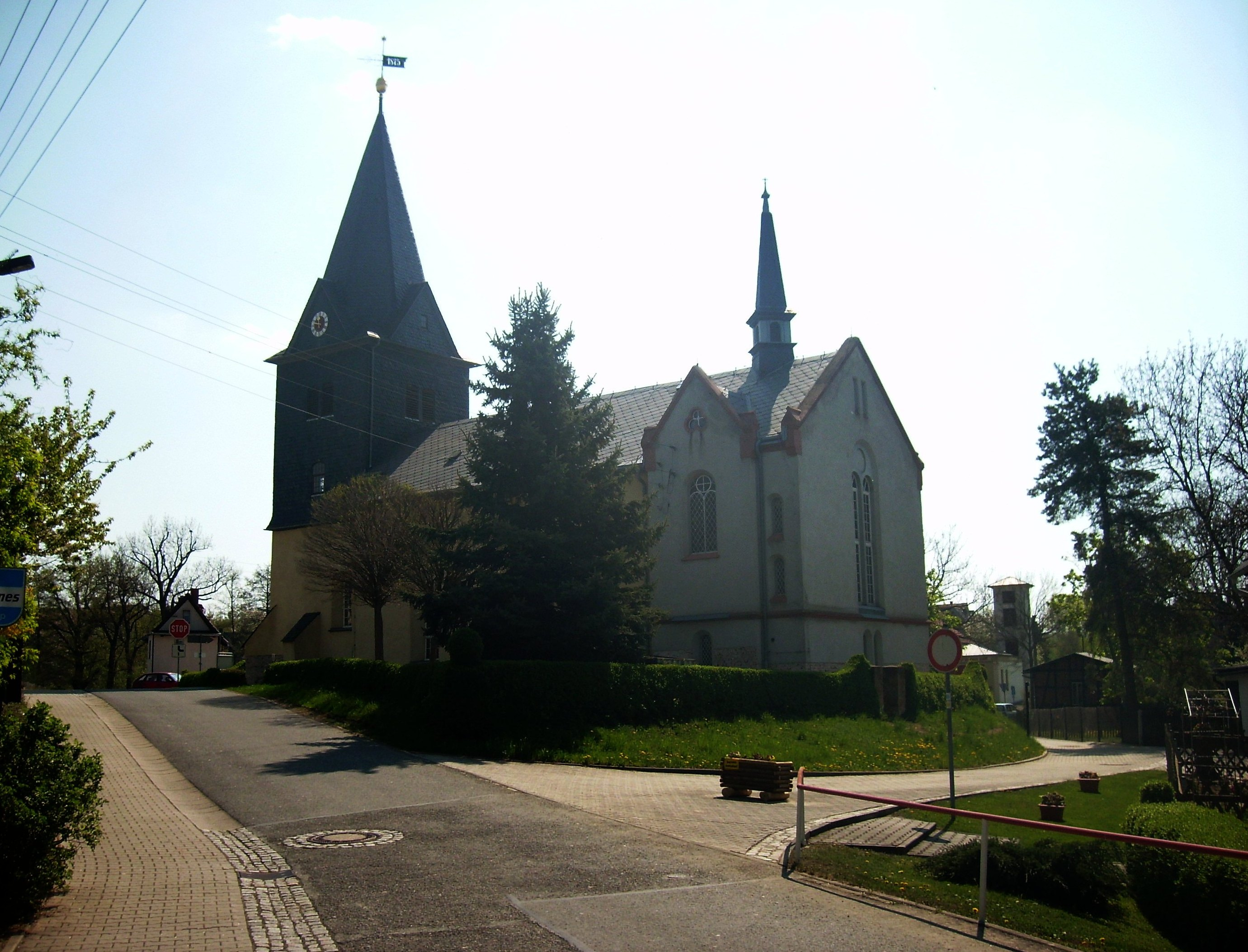 Lutheran church in Braunichswalde (Greiz district, Thuringia)